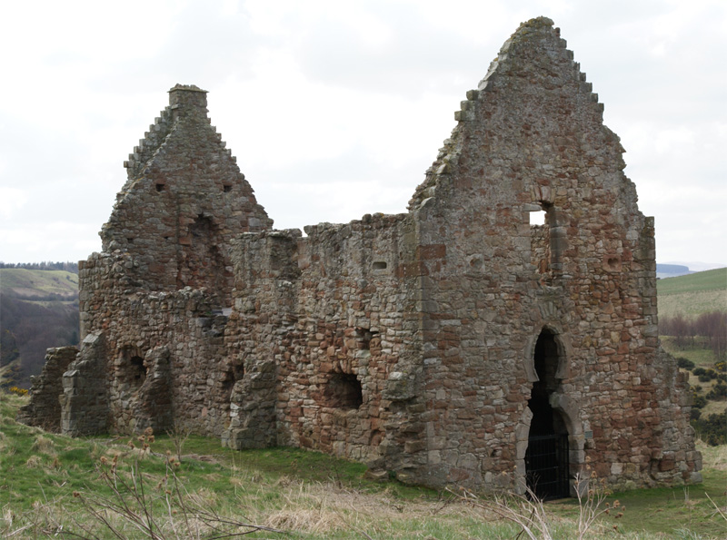 Crichton Castle, Midlothian, Scotland - stables